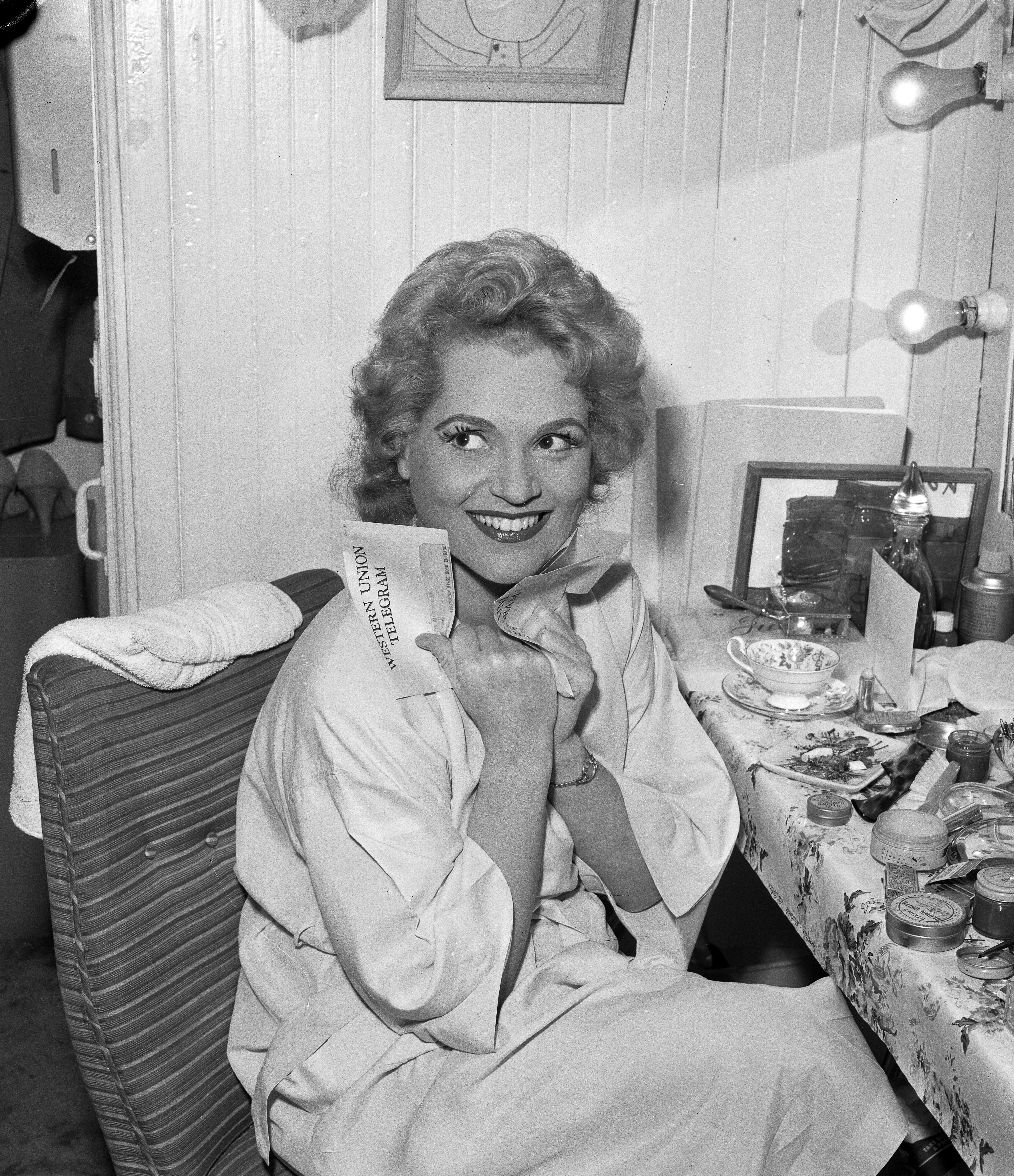 Actress Judy Holliday clutching a telegram in her dressing room before opening of the 22nd season of the Los Angeles Civic Light Opera. Published caption:STAR OF MUSICAL-- Judy Holliday clutches telegram of good wished in her dressing room before premiere of the Broadway hit, Bells Are Ringing, that ushered in the 22nd season of the Los Angeles Civic Light Opera Association. Judy Holiday would later reprise her role in the 1960 film version of the play.